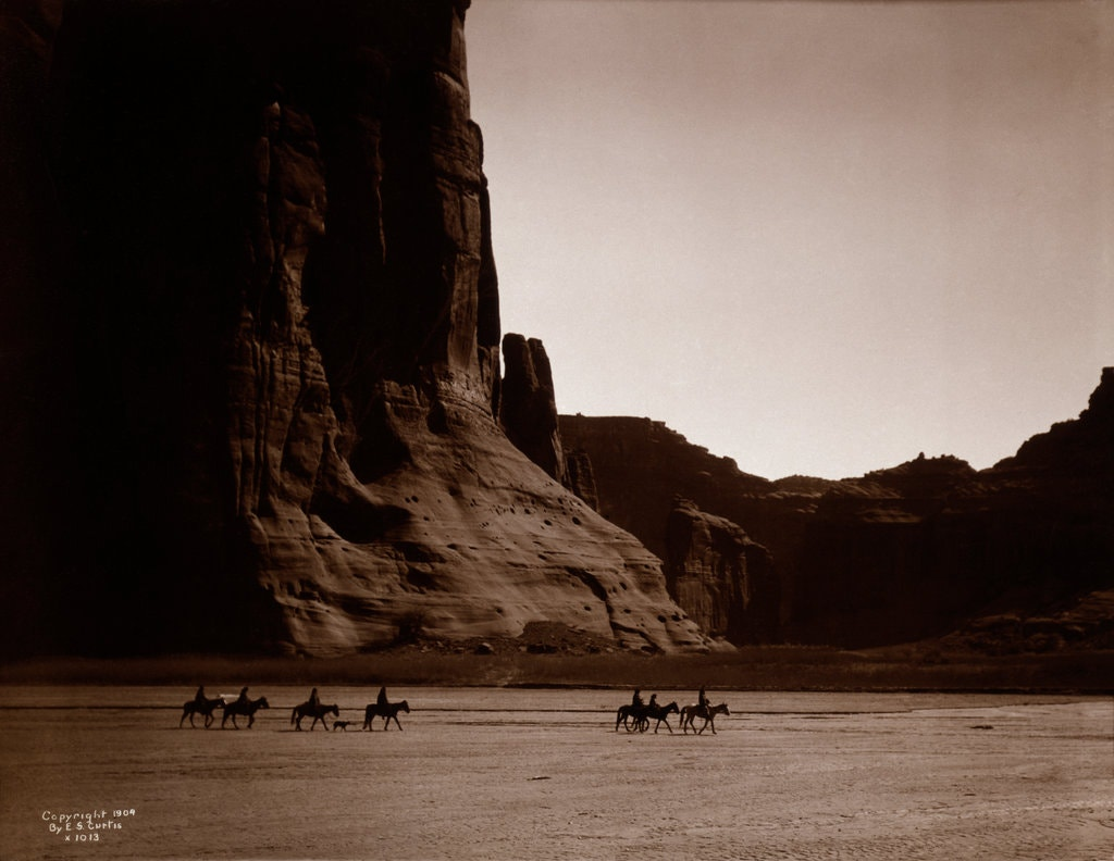 Cañon de Chelly - Navaho, 1904